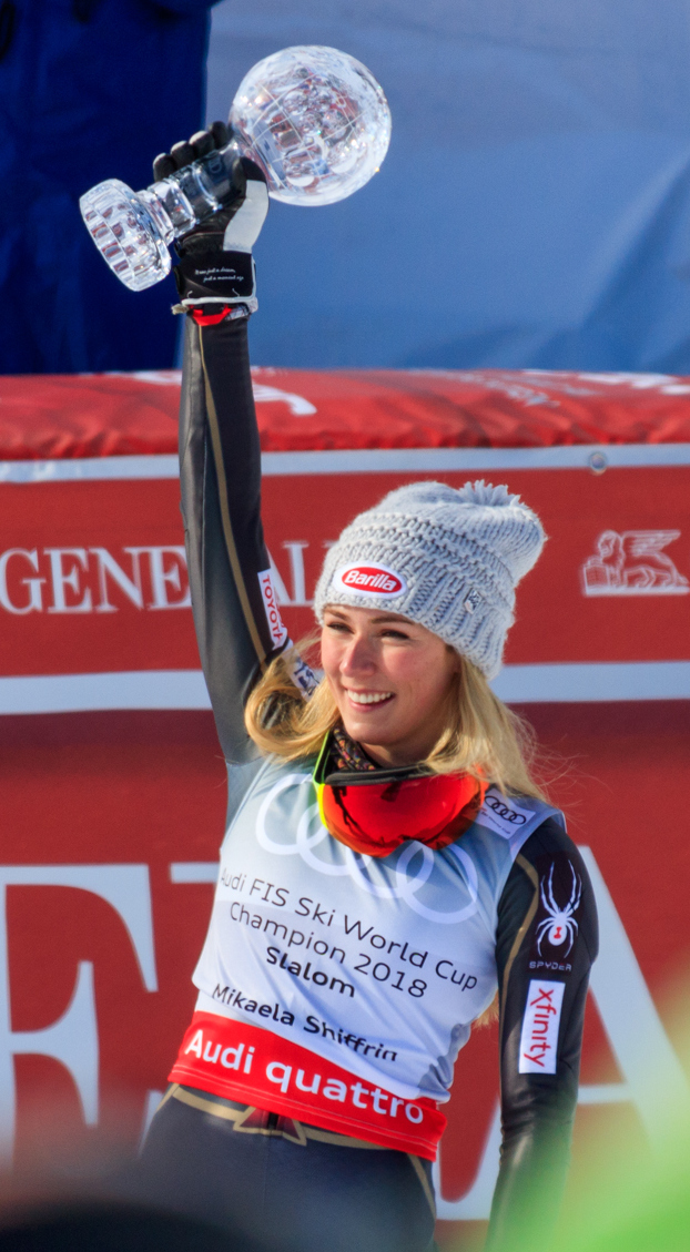 Mikaela Shiffrin in Åre 2018